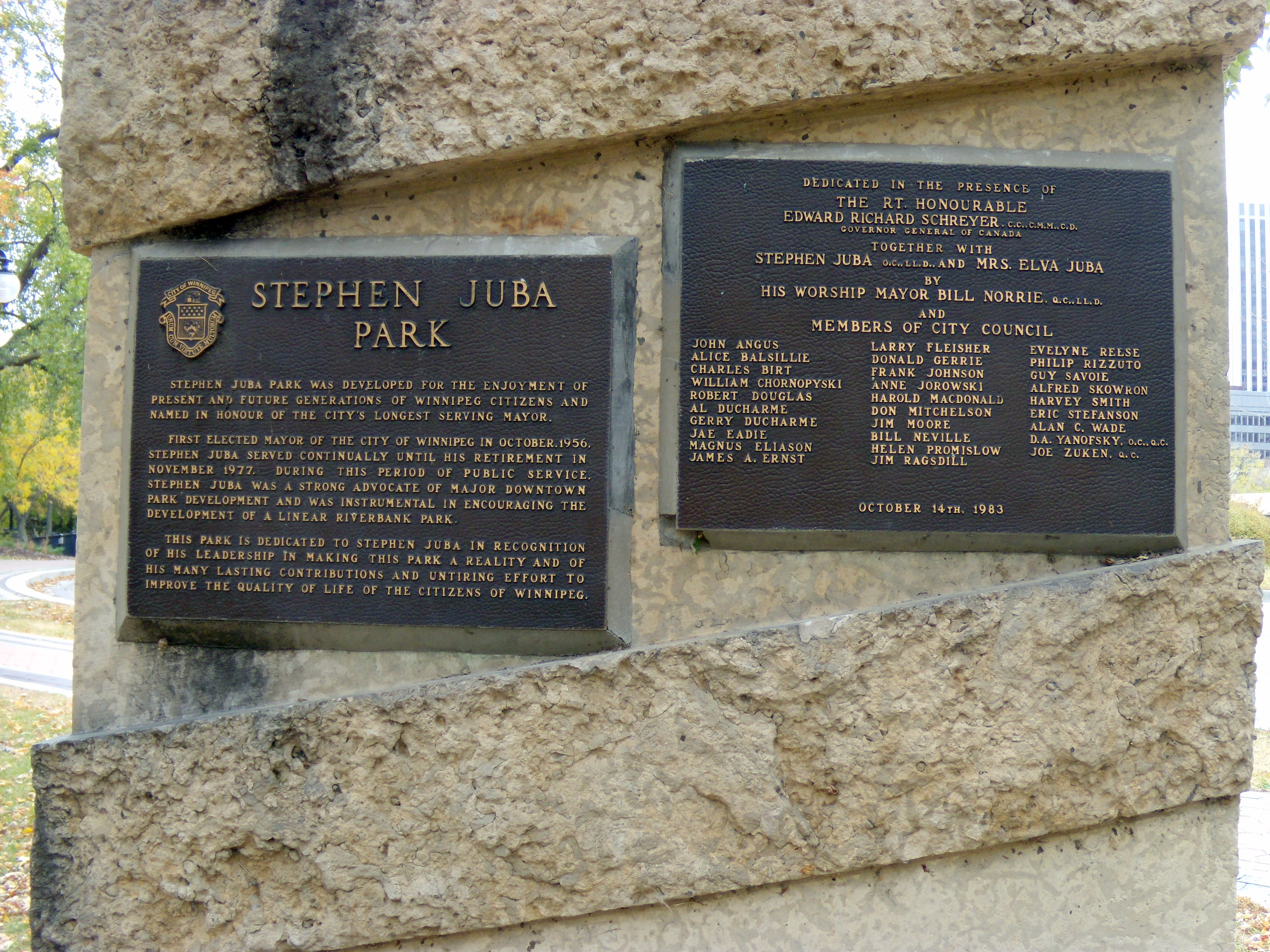 Signage for the Stephen Juba Park in Winnipeg's Waterfront District